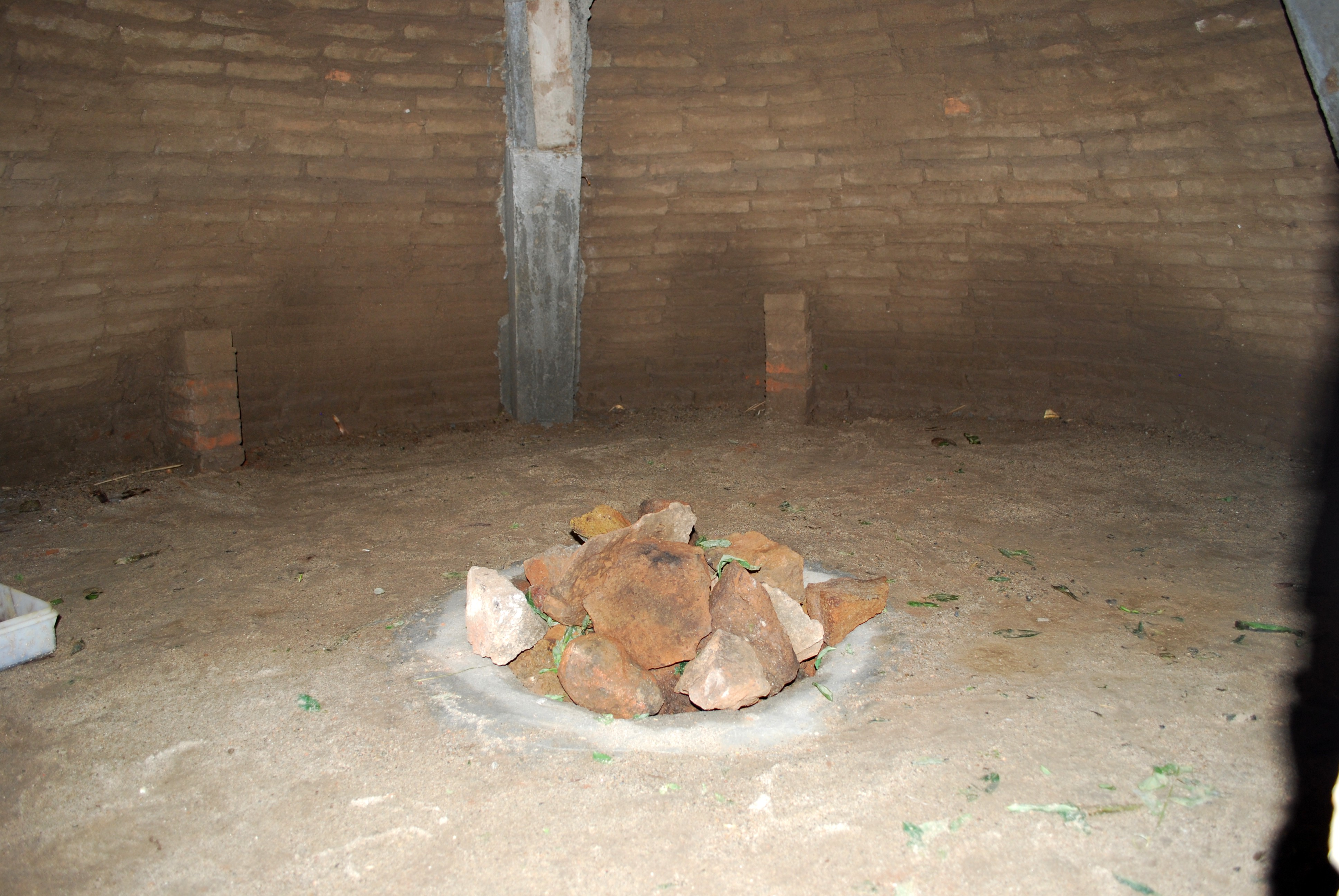 Inside the clay temazcal at the La Chonita Hacienda in Tabasco, Mexico